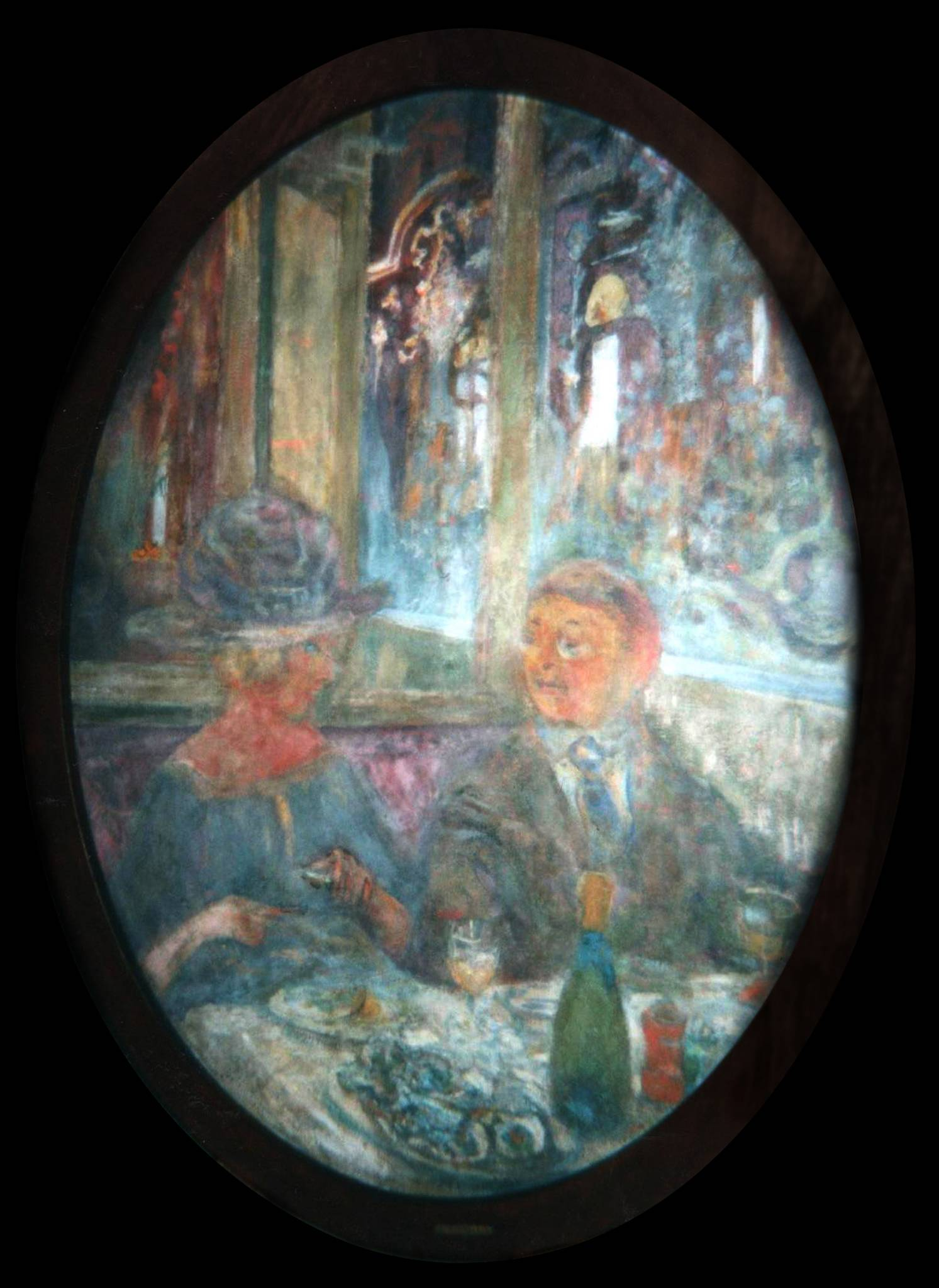 About 4 feet in height by three feet in width, "The Oysters" depicts a couple seated to champagne and oysteers and is estimated to be worth £250,000. It last sold in 2005 for £3,000 on eBay to an unknown auction winner. Its current whereabouts are unknown.